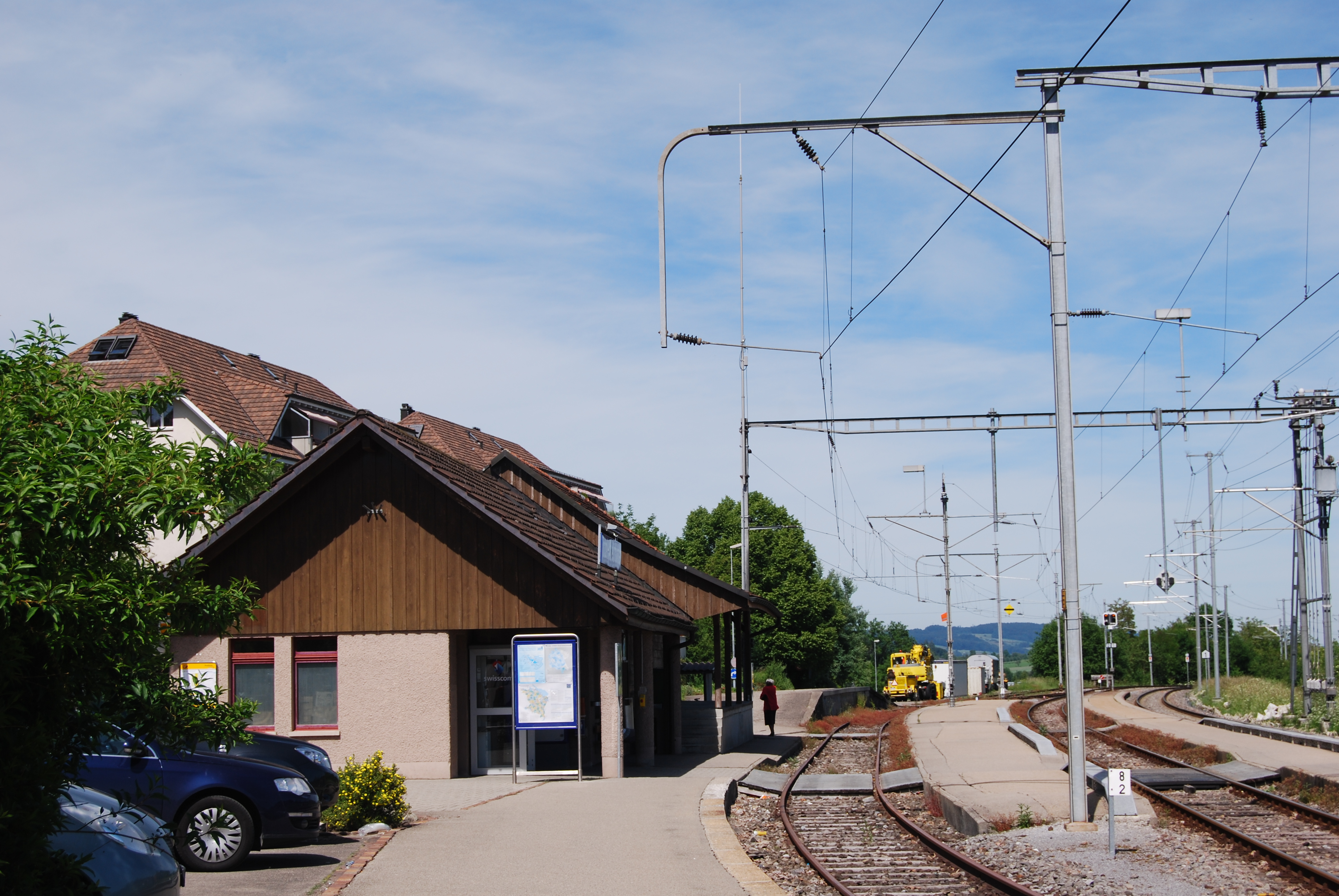 Train station of Tobel, municipality of Tobel-Tägerschen, canton of Thurgovia, SwitzerlandEsperanto: Stacidomo de Tobel, komunumo Tobel-Tägerschen, Kantono Turgovio, Svislando